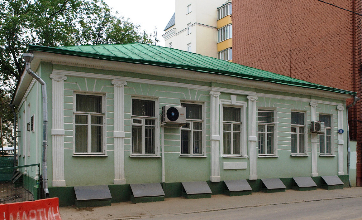 Golikovsky Lane, Moscow.